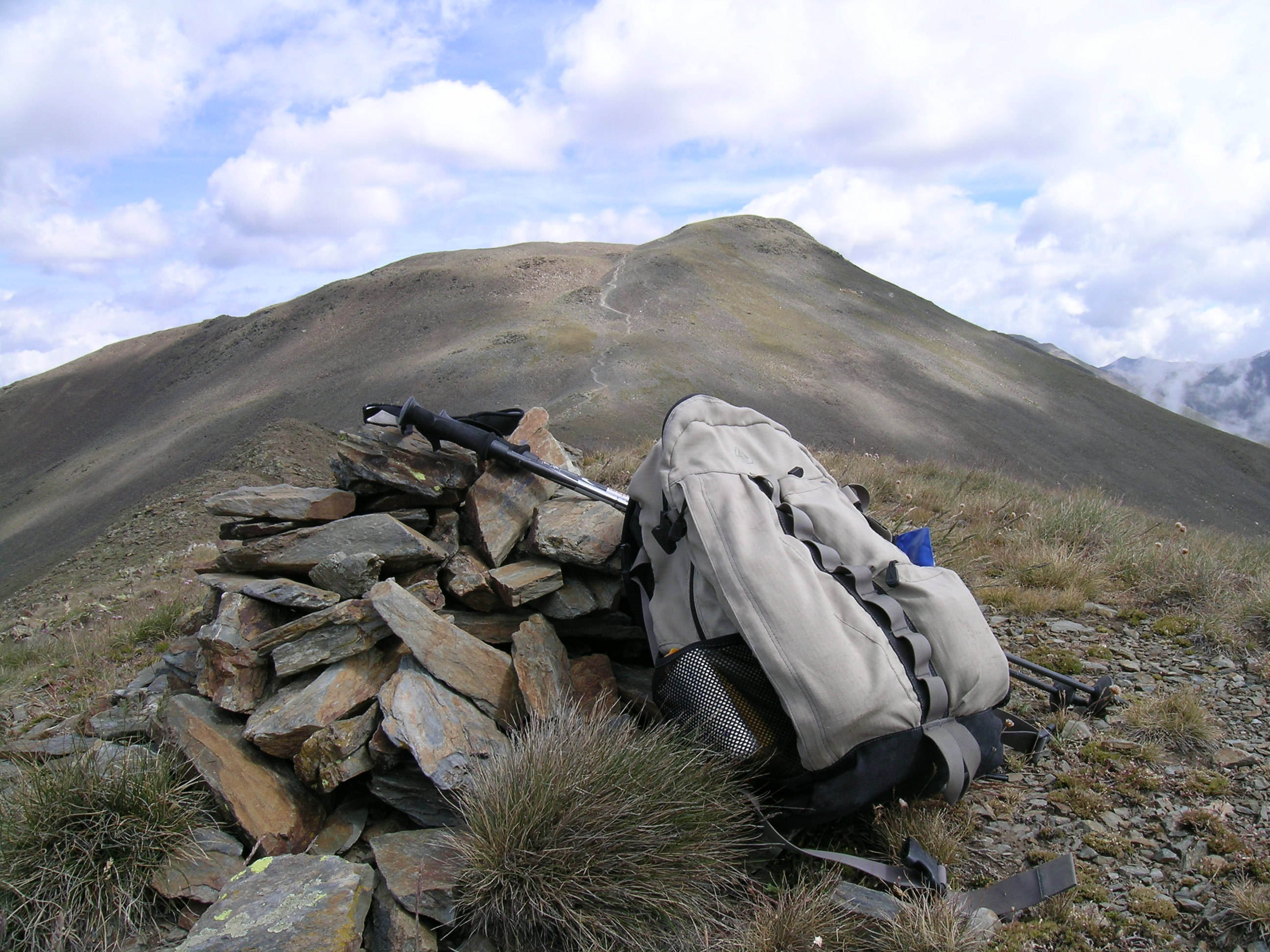 Puig del Coll de Finestrelles Summit (2744 msnm) - (Ripollès)